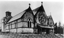 Photograph of Church of St John the Evangelist, Cumnock, Ayrshire, Scotland. Unknown date and author.